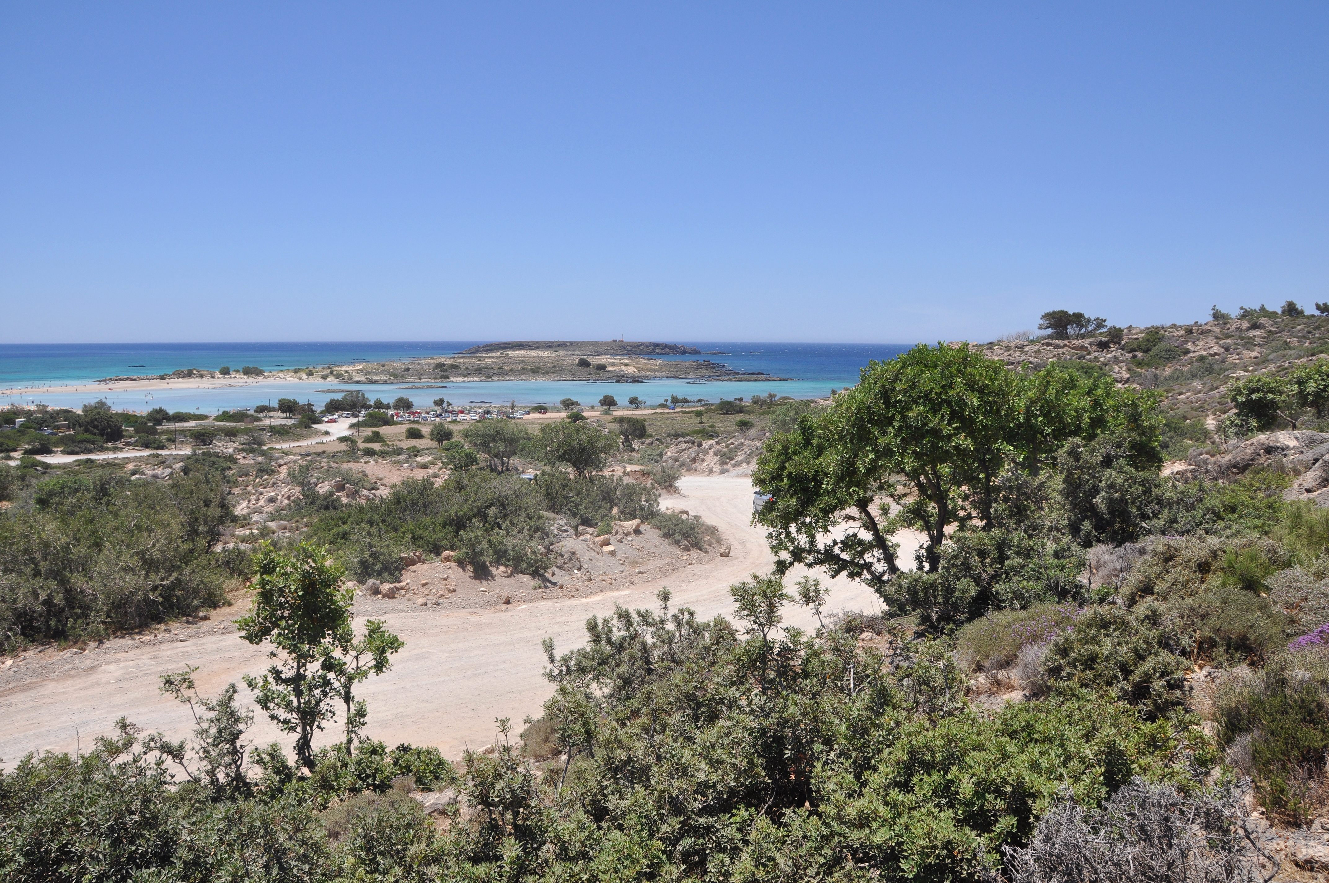 Elafonissos (Crete, Greece): the beach and the island of Elafonisi